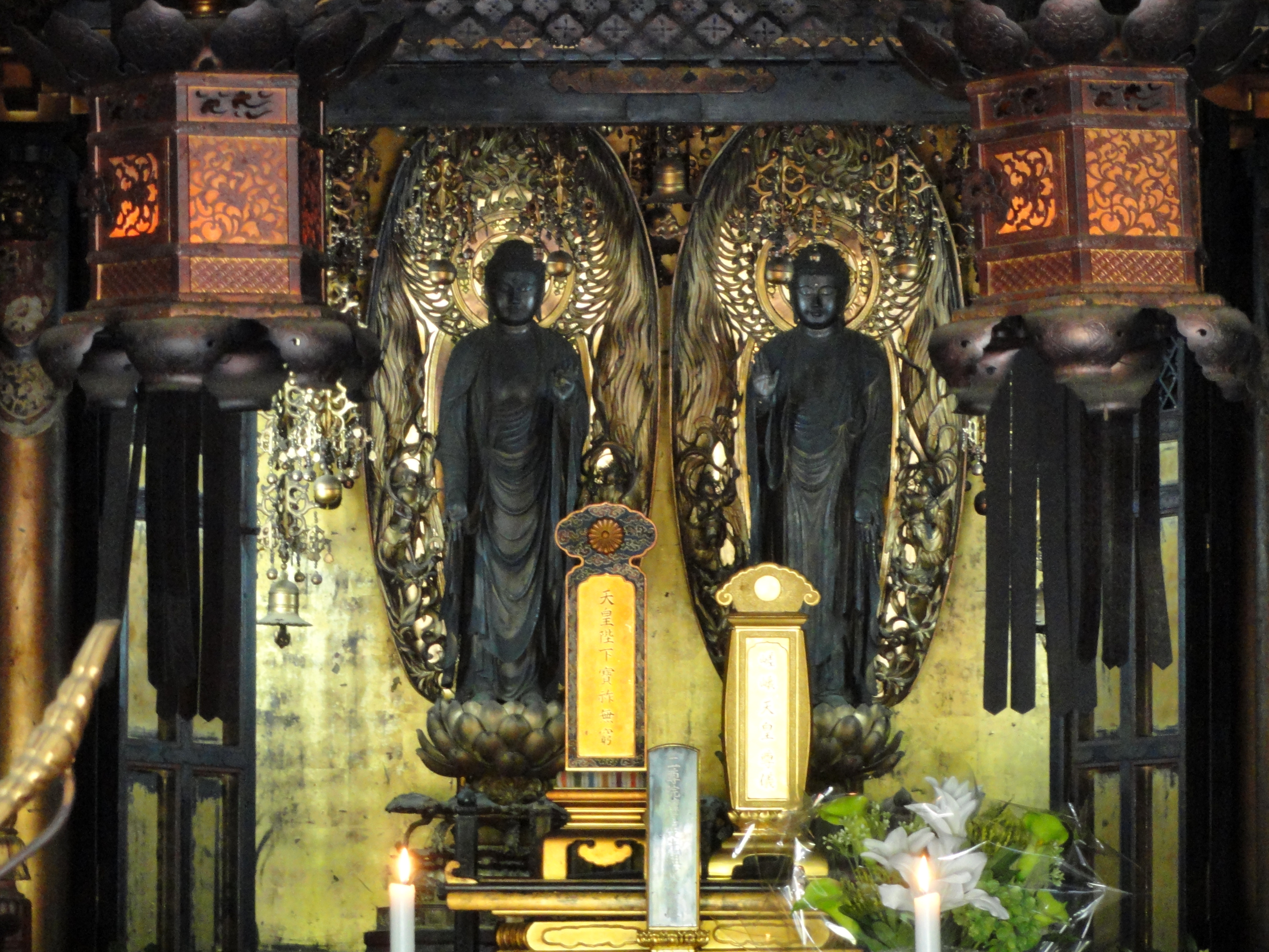 Nisonin, Kyoto, Japan.